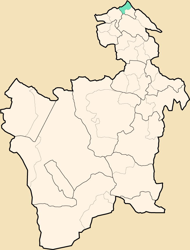 Arampampa Municipality, Potosí Department